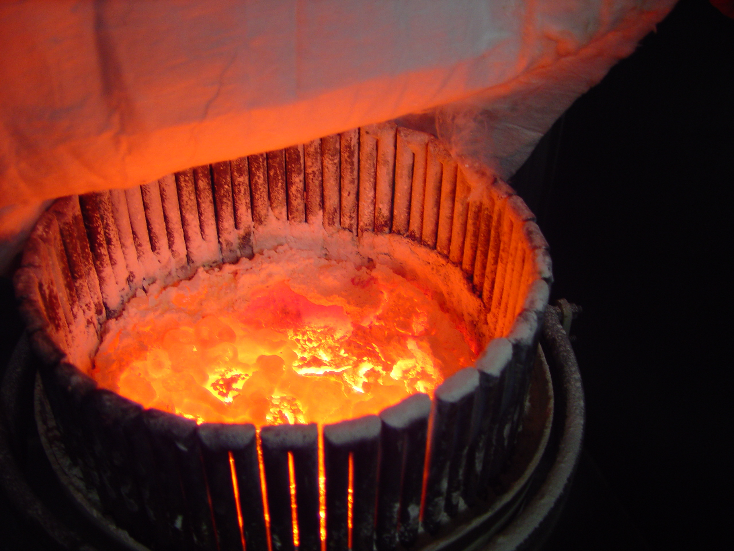 A hot skull crucible containing cubic zirconia